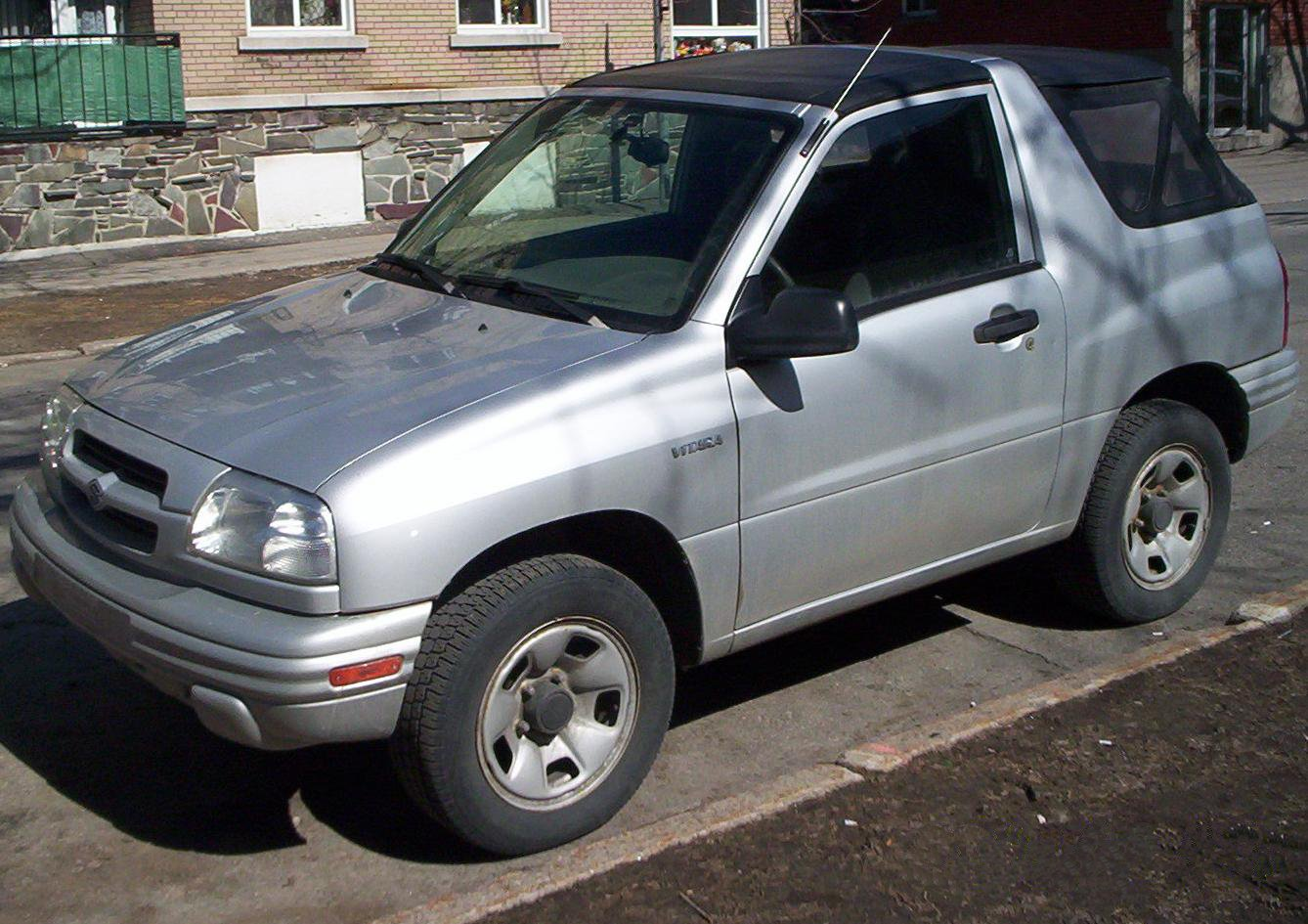 1999-2004 Suzuki Vitara photographed in Montreal, Quebec, Canada.